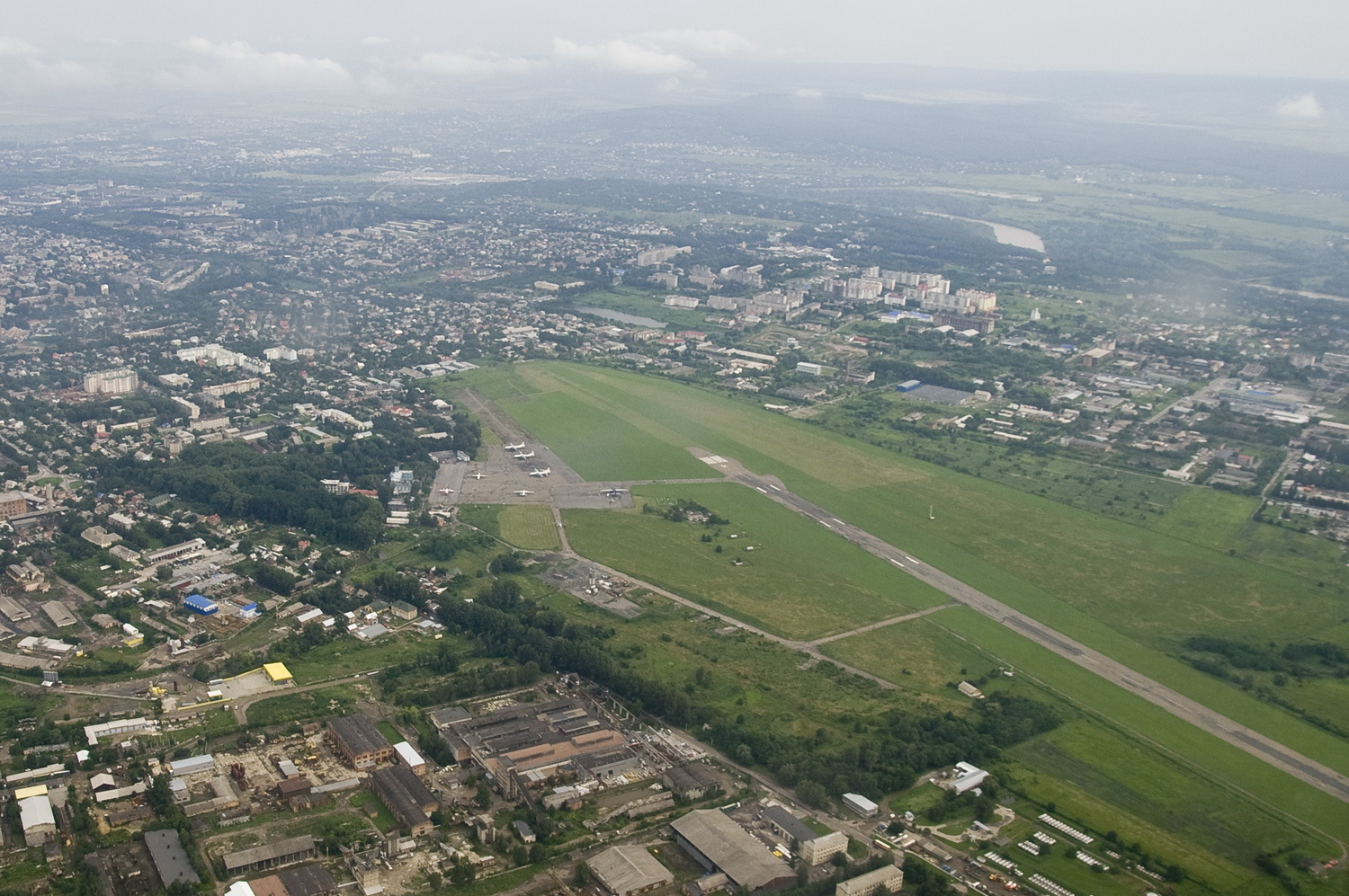 View of the airport and around the city of Chernivtsi